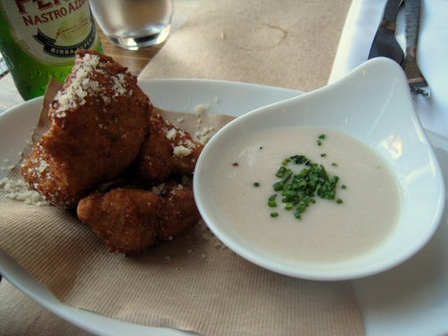 Get the full scoop